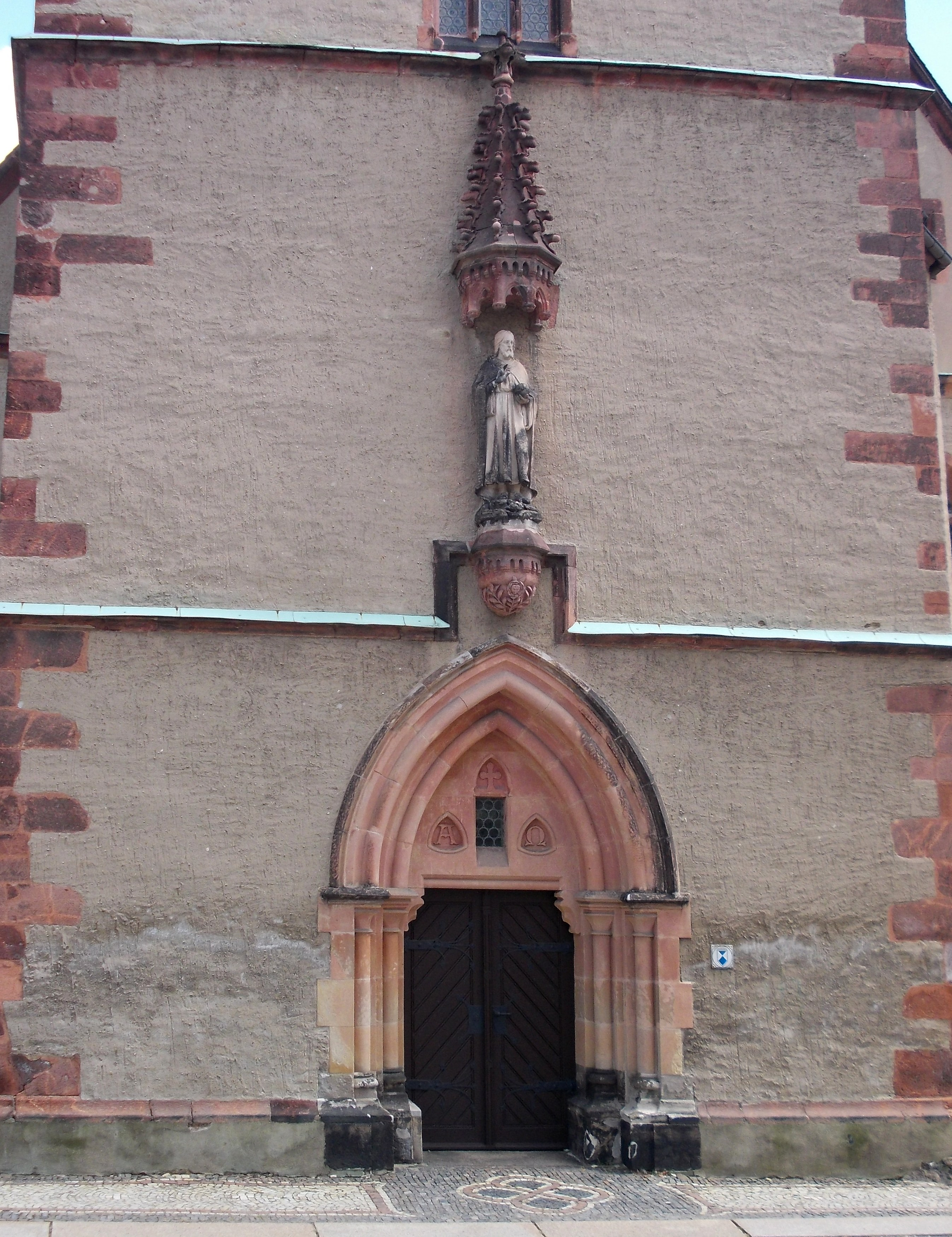 St. Bartholomew's Church in Waldenburg (Zwickau district, Saxony), portal